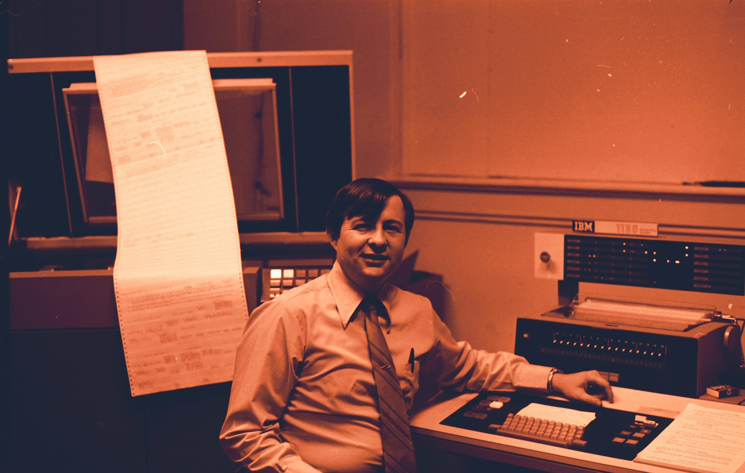 A man sitting at an IBM 1130 computer with an IBM 1132 line printer opened up in the background. A fanfold printout is draped over the open printer. Original caption: "A man in a tie (with a tie clip, even!), showing off a snazzy bit of modern technology - an IBM 1130, whatever that was. I suspect that Tickle Me Elmo has more computing power these days than that giant contraption. Science has marched on."